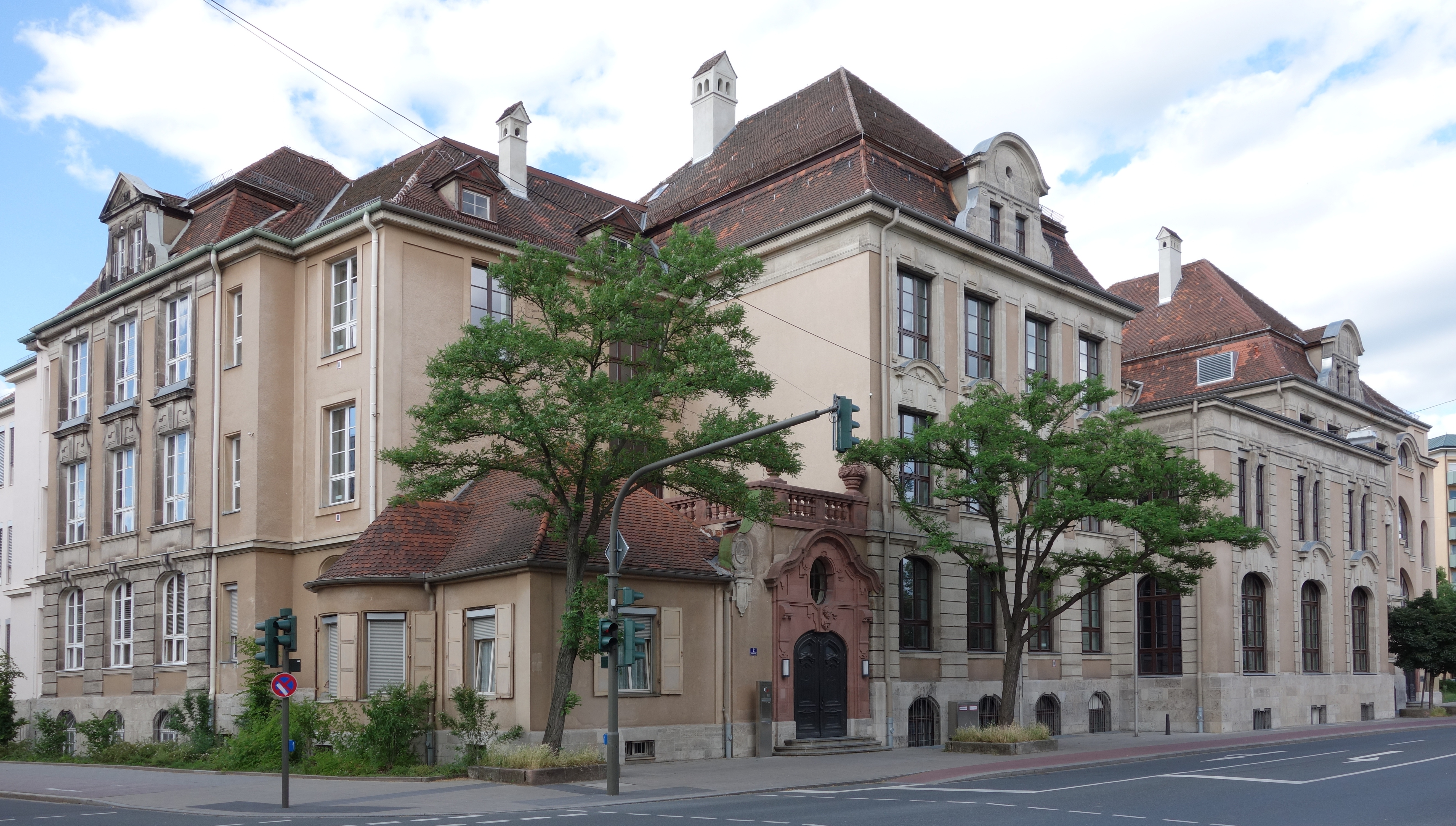 The Christian-Ernst-Gymnasium in Erlangen, Langemarckplatz 2